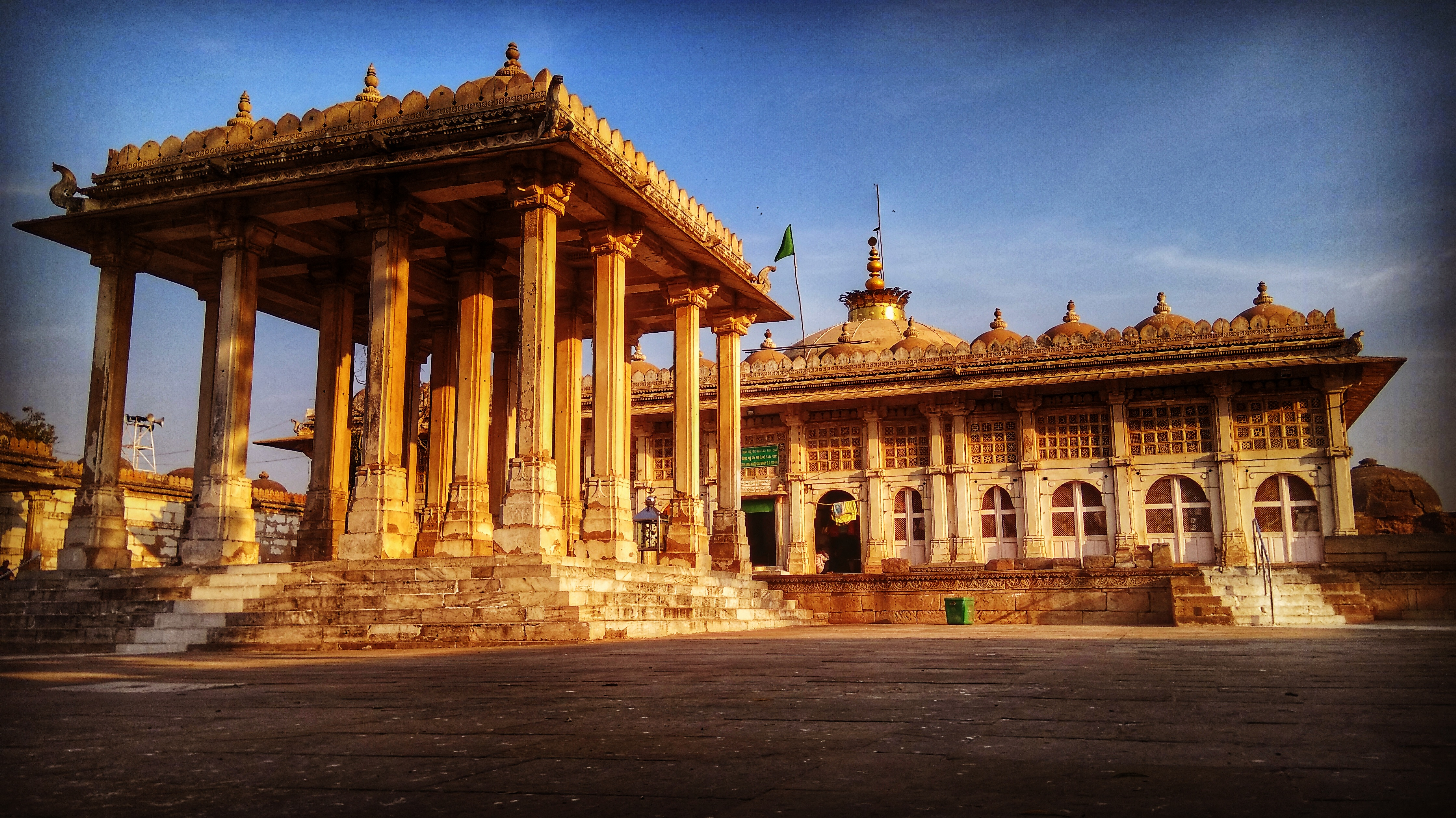 Tomb of Shaikh Ahmed Khattau Ganj Baksh